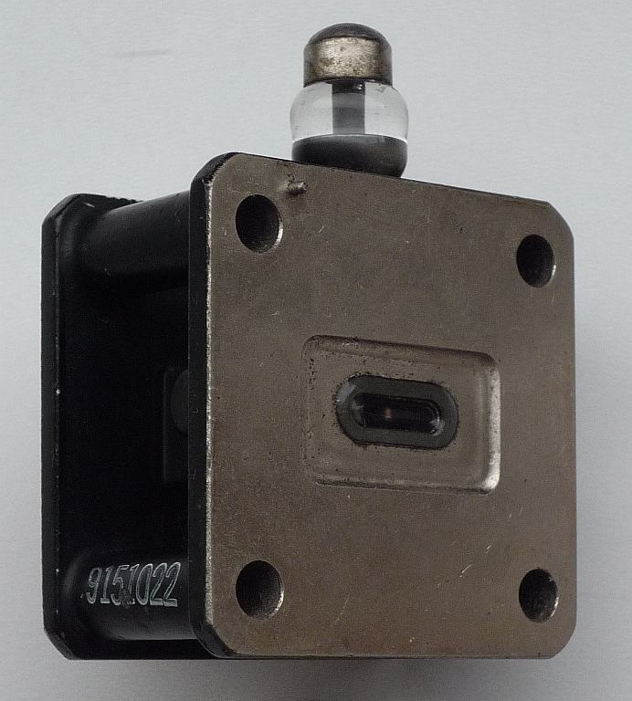 ATR-switch used in the duplexer of a radarsystem. The switch protects the receiver from the transmit pulse.